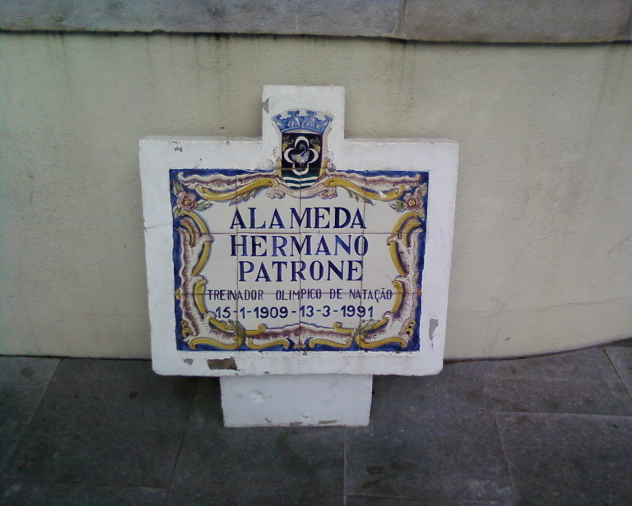 Street named after portuguese swimner Hermano Patrone in Algés